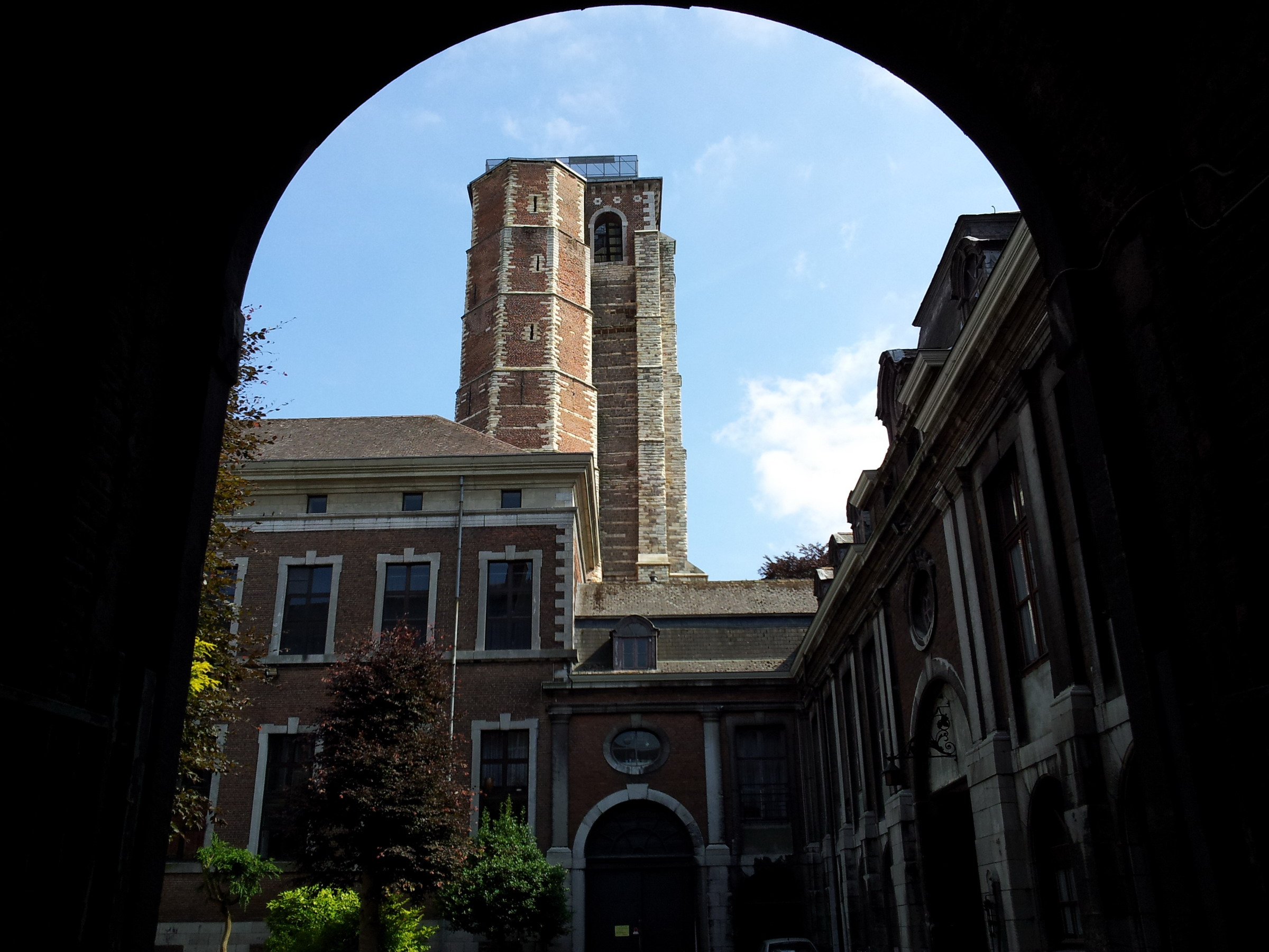 View from the West of the former abbey buildings and the tower of the demolished church of the former Benedictine abbey in Sint-Truiden, Belgium.